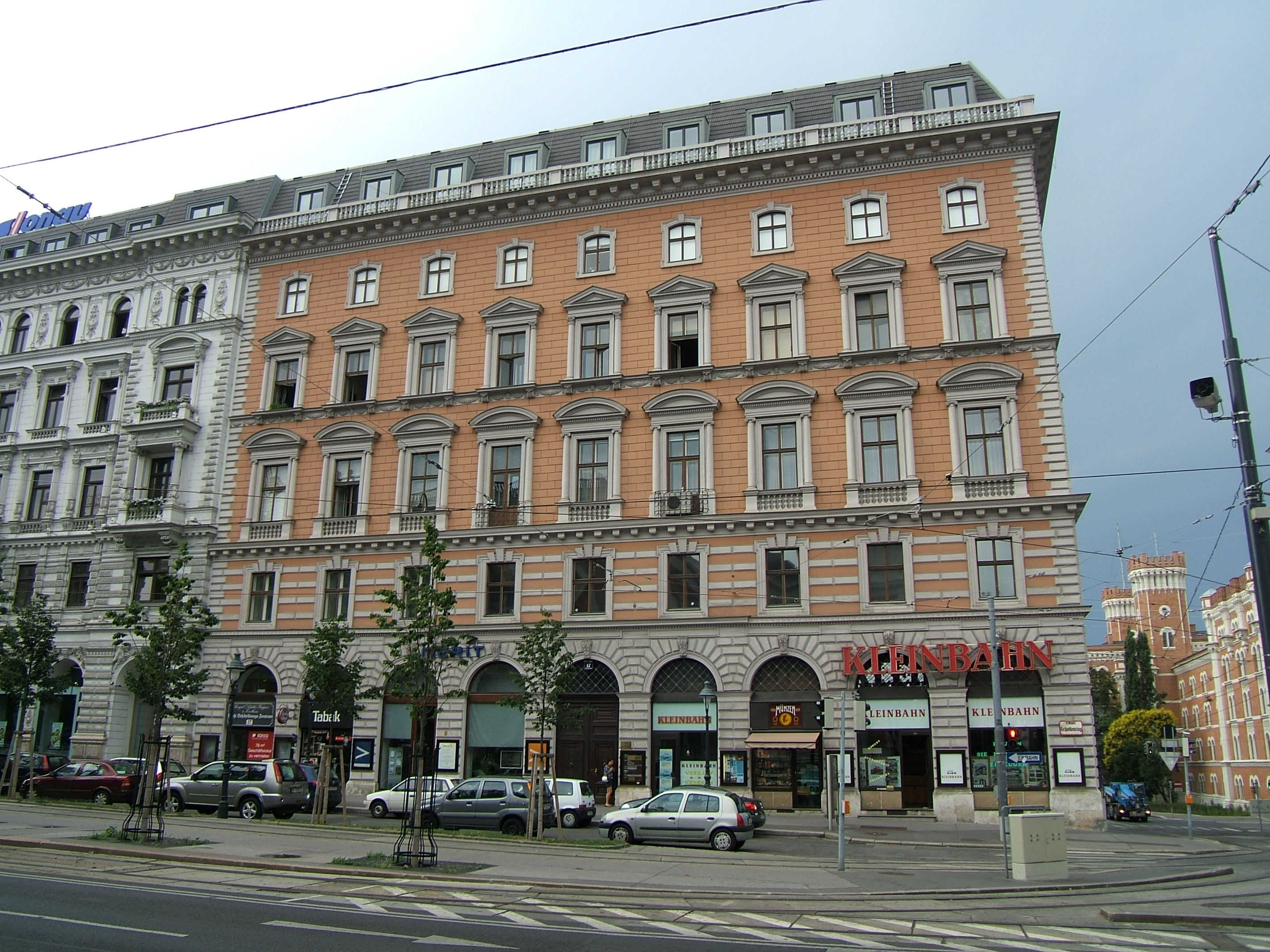 Palais Léon in Vienna 1st district, Schottenring 17